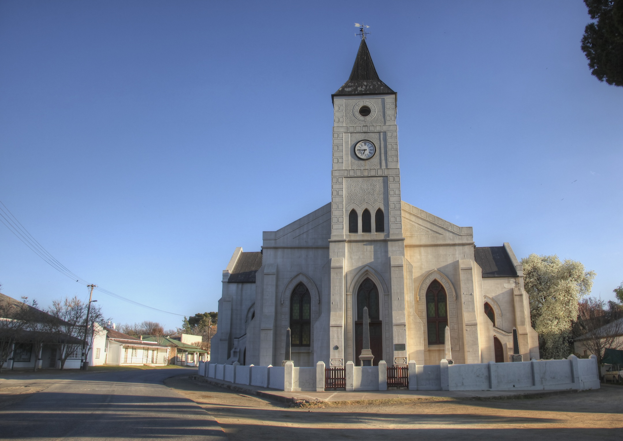 Nederduitse Gereformeerde Church, Voortrekker Street, Philippolis This media shows a South African Protected Site with SAHRA file reference 9/2/331/0012.